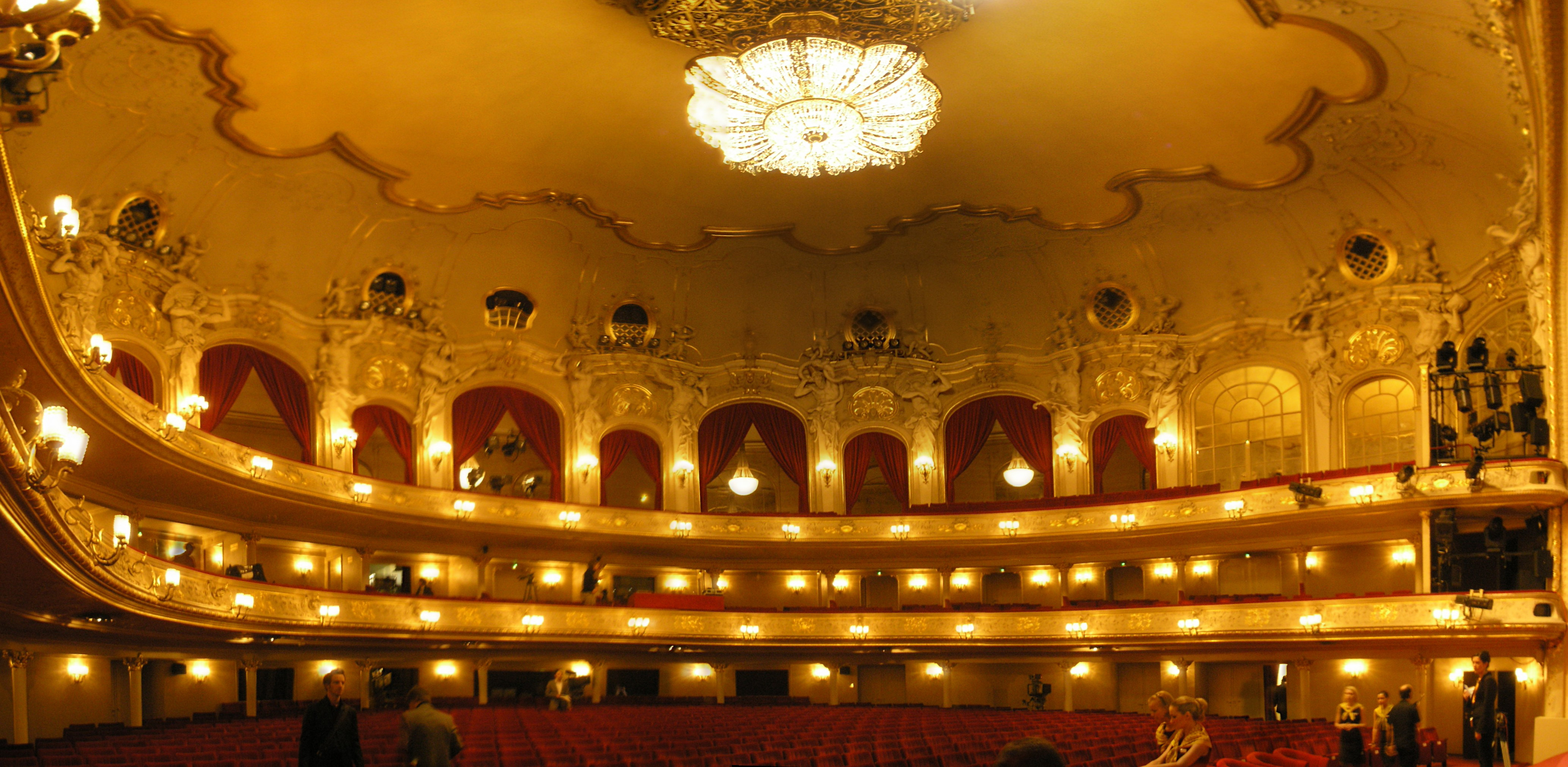 Interior of the main seating area of the Komische Oper Berlin.